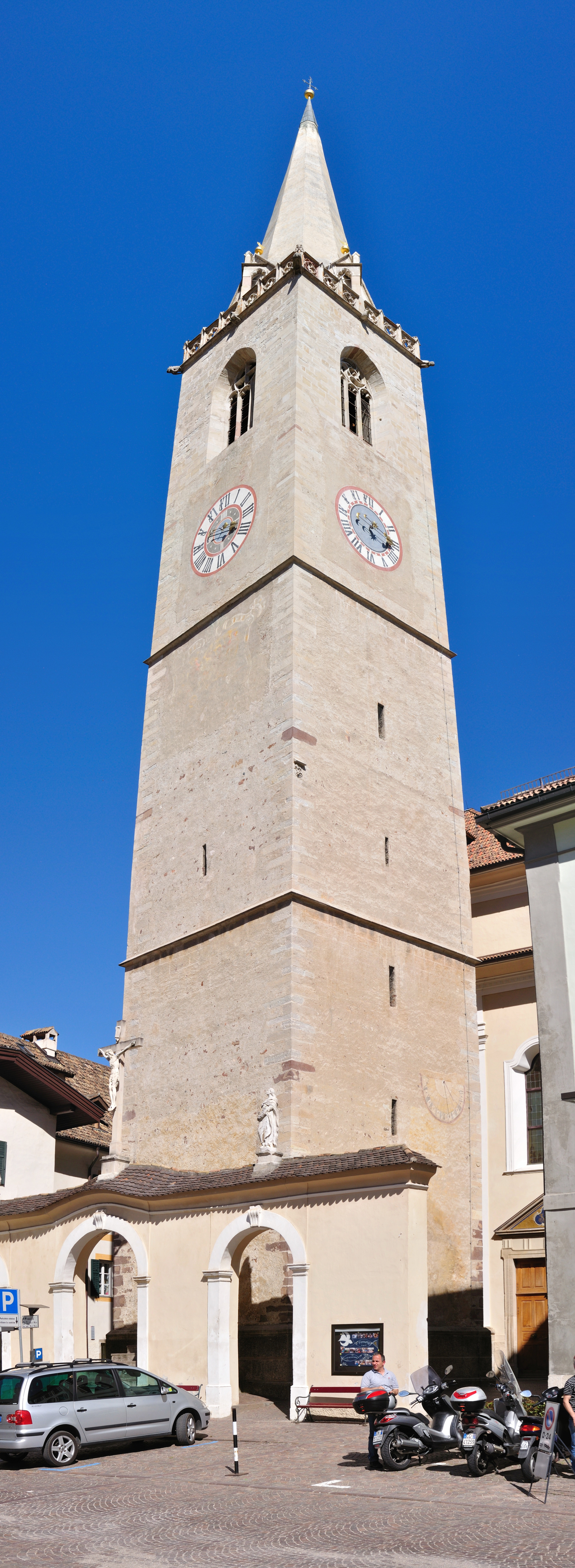 Italy, South Tyrol, panoramic impressions from South Tyrol